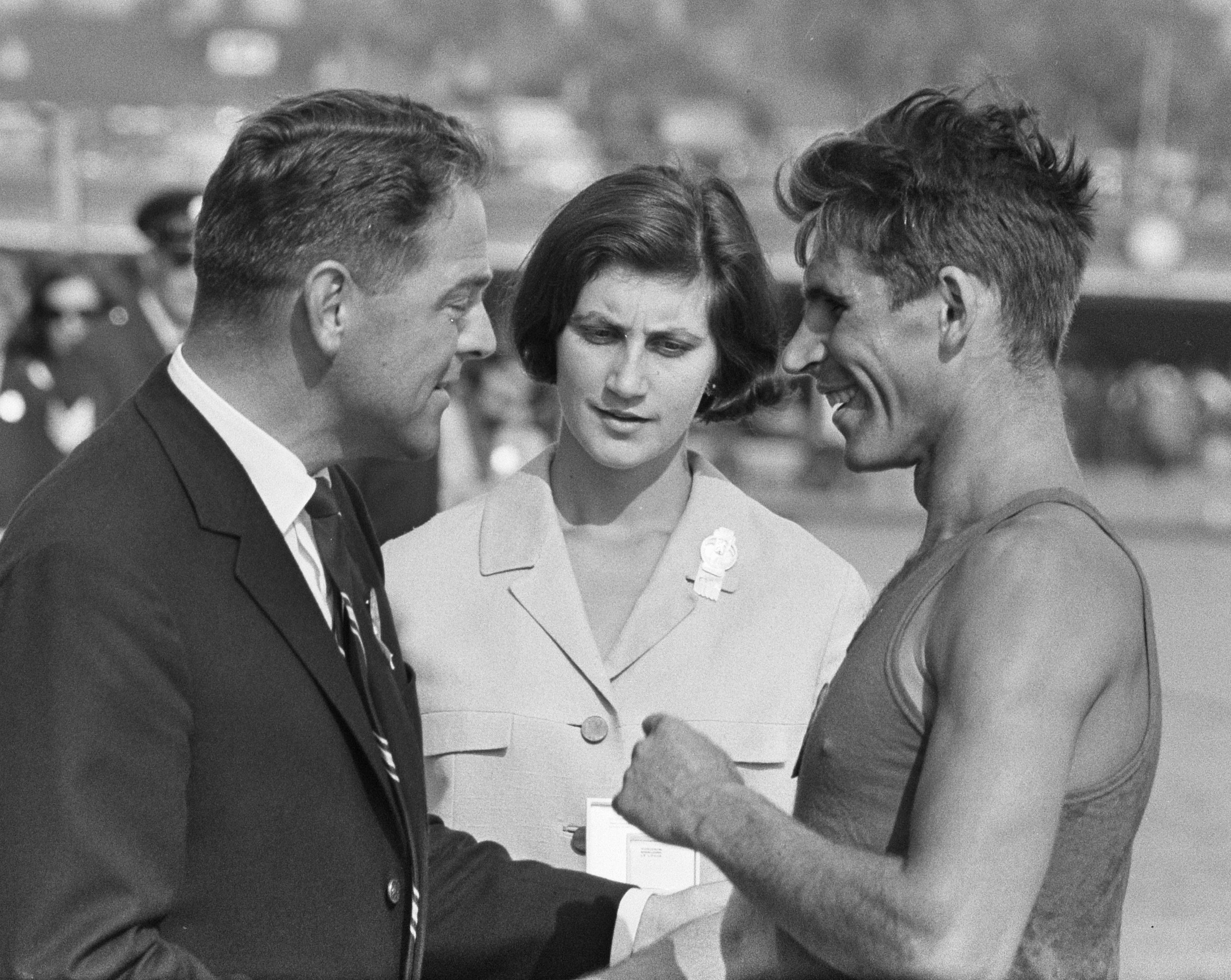 Europese roeikampioenschappen Bosbaan, Ivanov ceremonie protocol